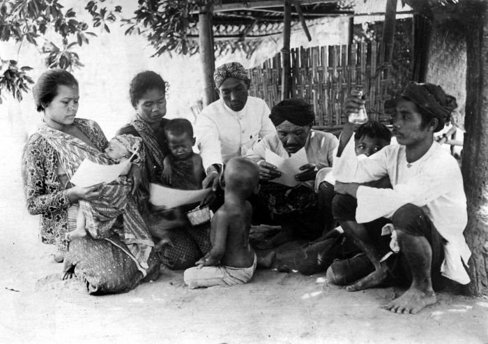 Home demonstration in healthcare by the Medical Health Service